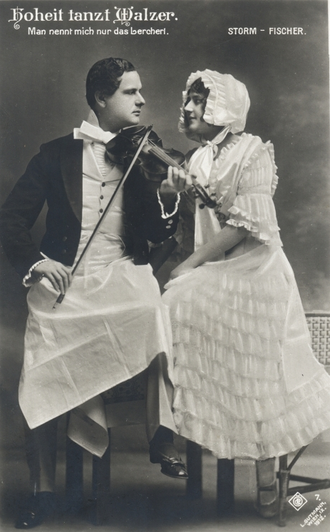 Otto Storm and Betty Fischer in the operetta Hoheit tanzt Walzer by Leo Ascher.